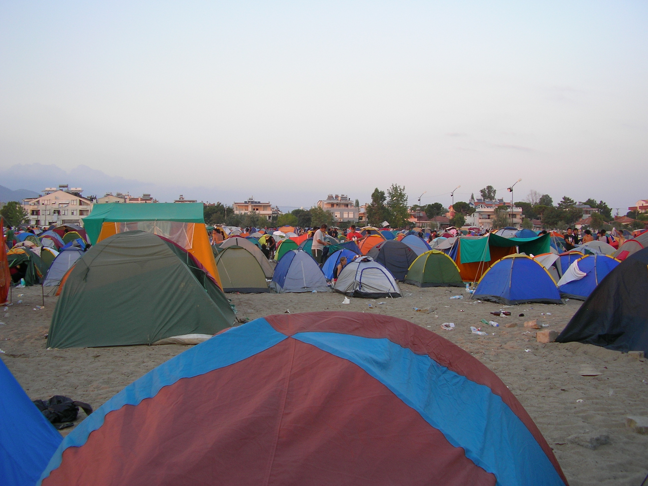 Camping place from Zeytinli, Balikesir, Turkey